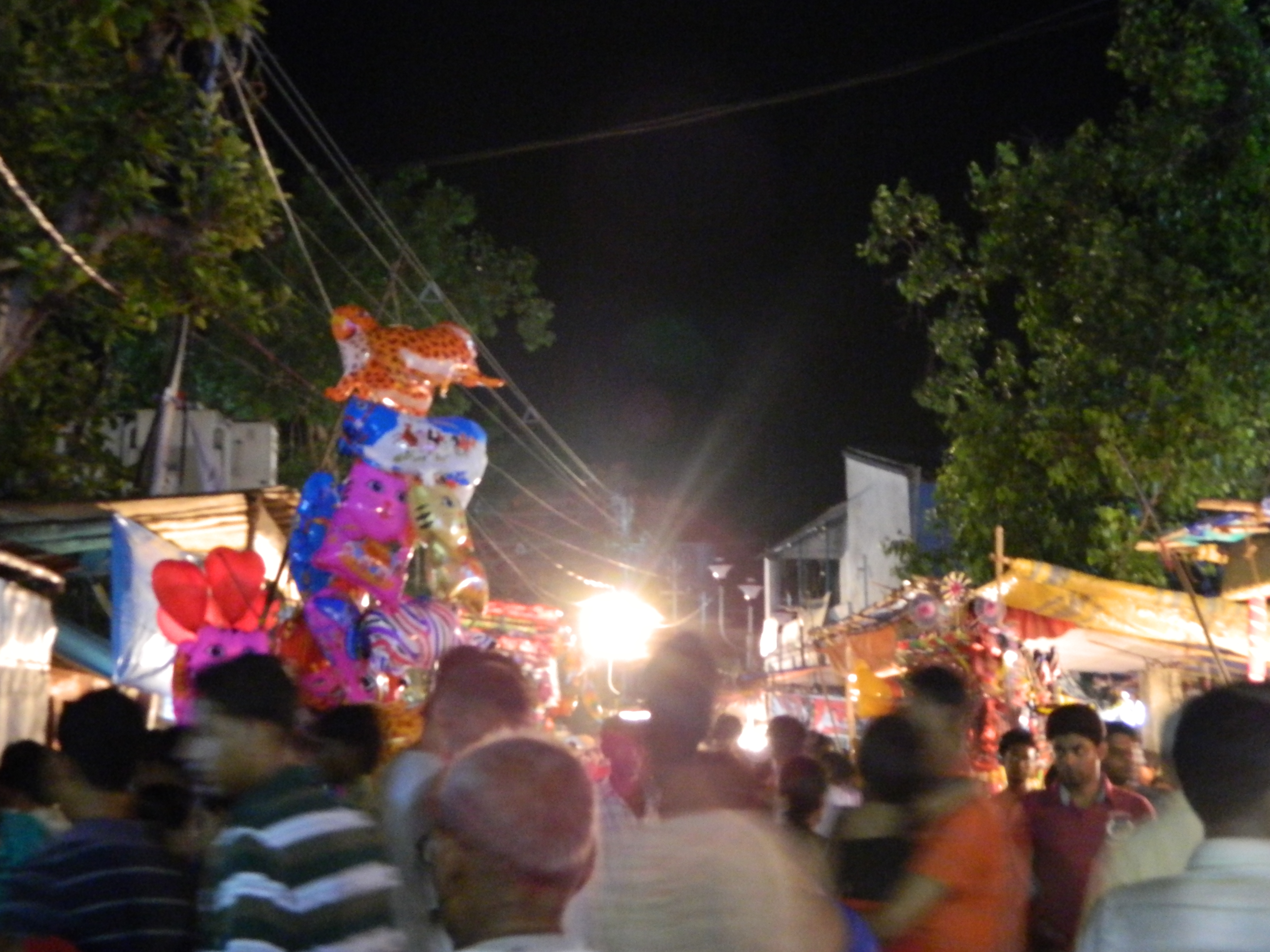 The Crowds that Visit Konnagar During Shakuntala Kali Puja